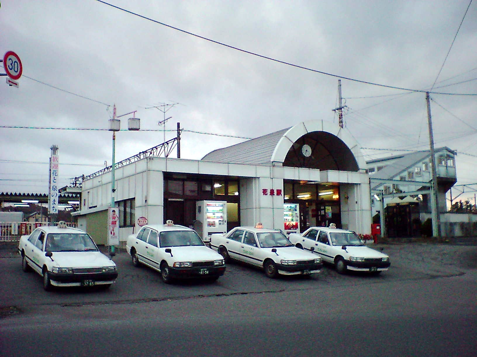 Hanaizumi Station of the Tohoku Main Line. Ichinoseki, Iwate prefecture, Japan.